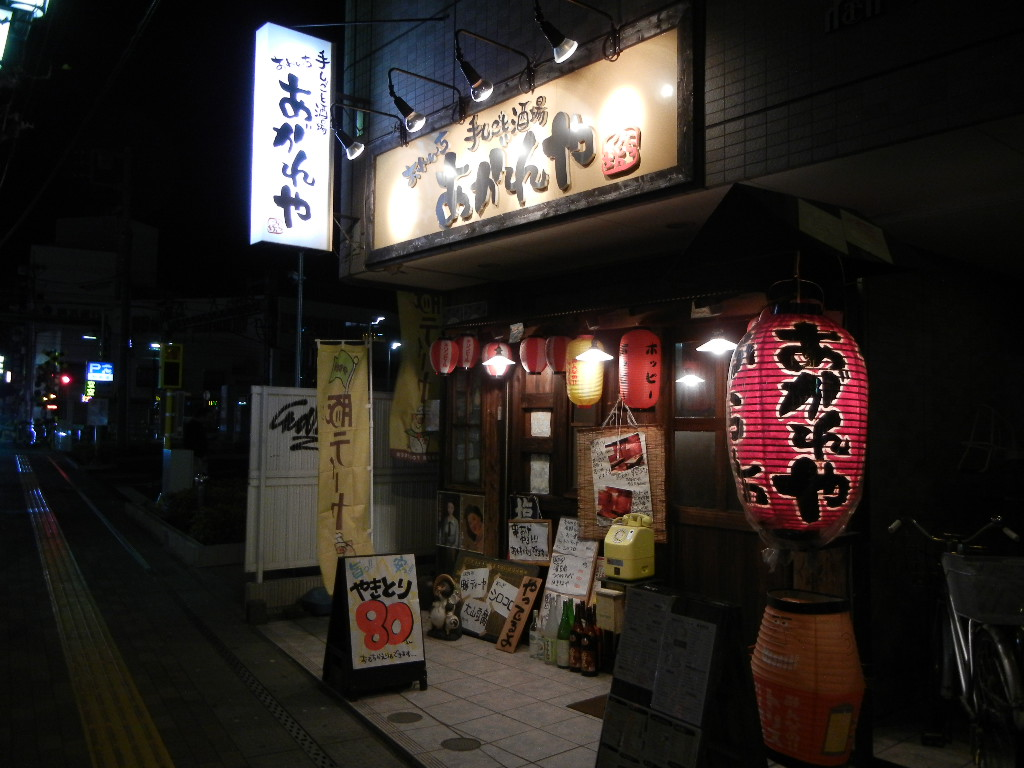 Agareya_Isehara. 神奈川県伊勢原市にある居酒屋「あがれや」, Isehara, Japan.